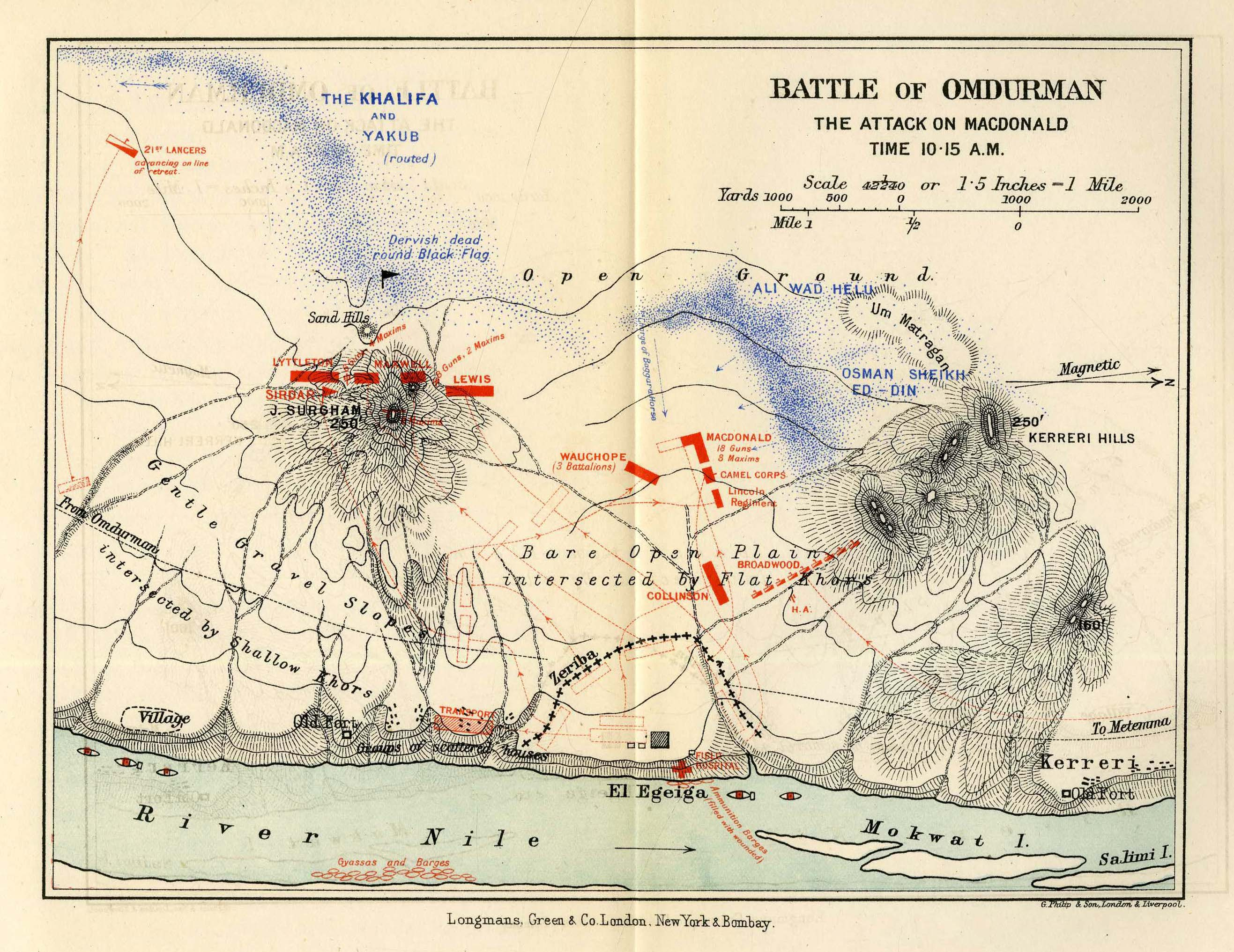 The Battle of Omdurman The Attack on MacDonald 2nd September, 10:15 am